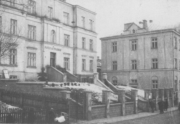 photo 1920-1930